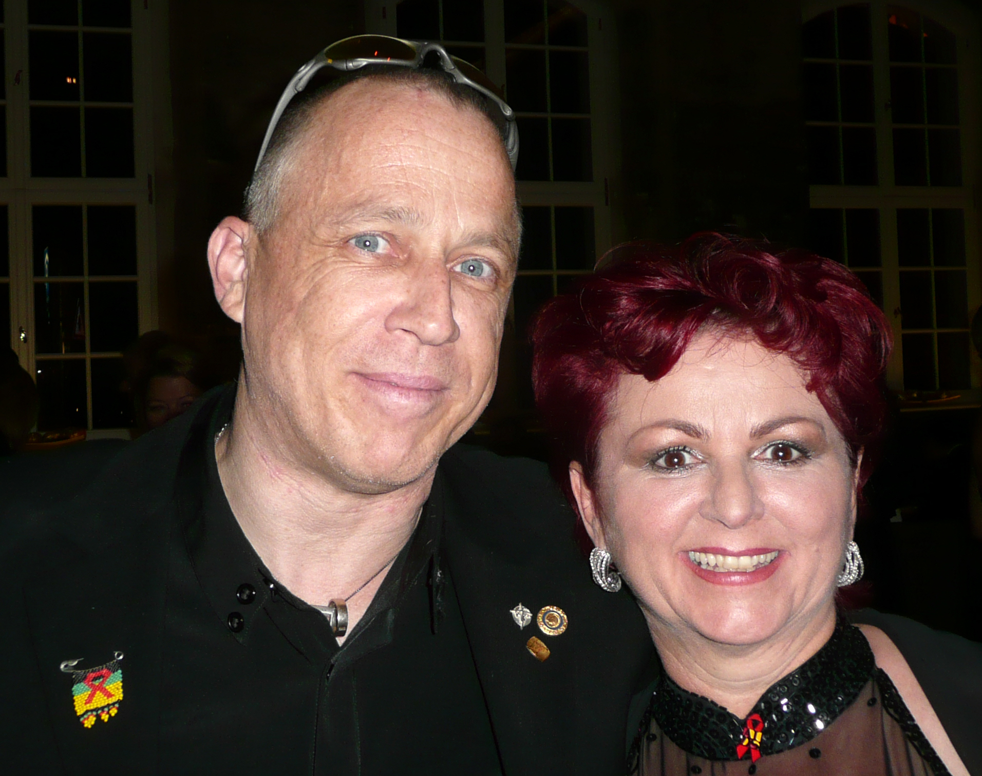 Stefan Hippler – Pastor in Cape Town and Chariman of HOPE Cape Town Trust, together with Viola Klein, in Dresden